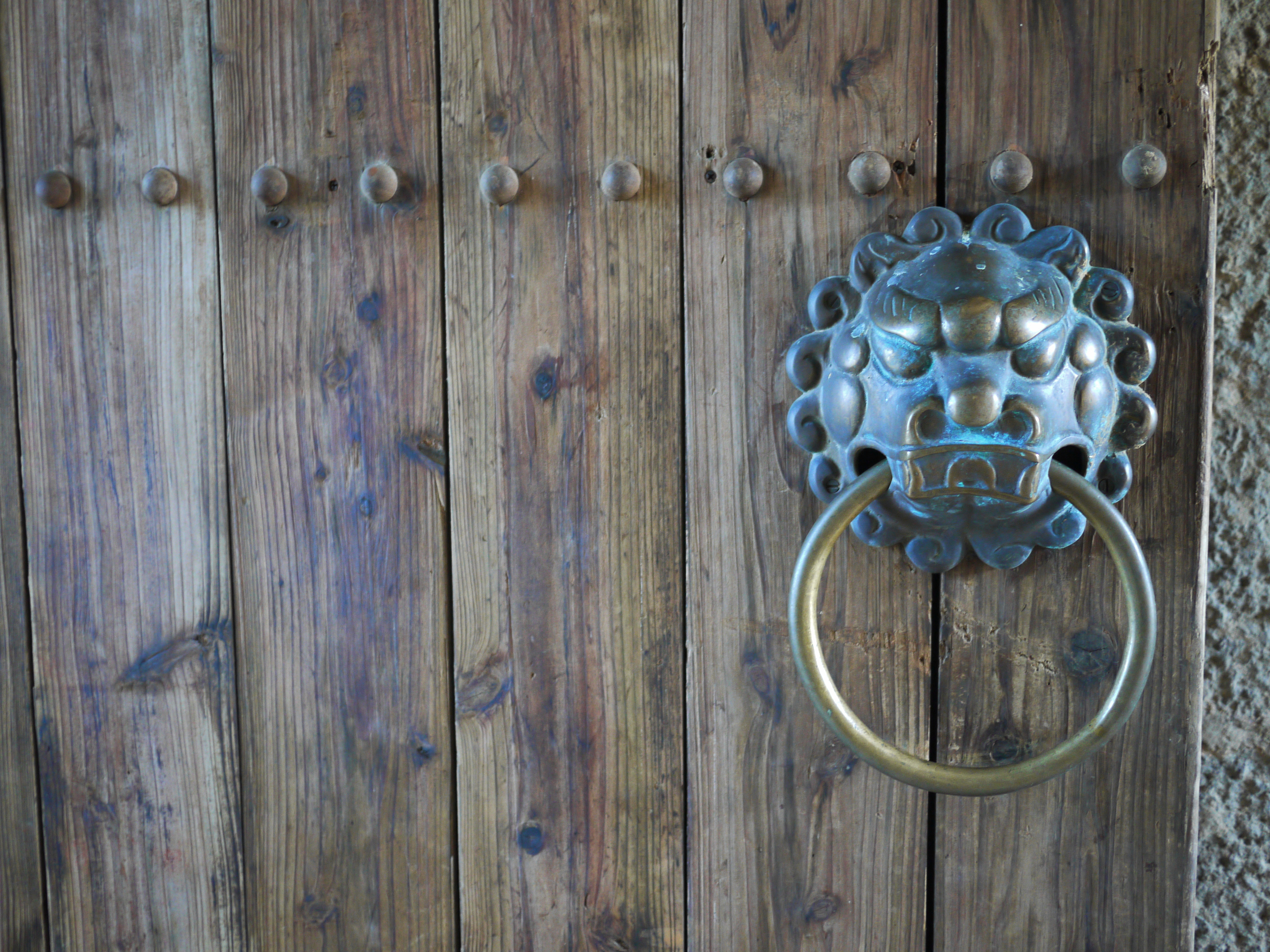 Door knocker